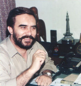 Touched up picture of "Ansar burney.jpg" by Pakistanarmy